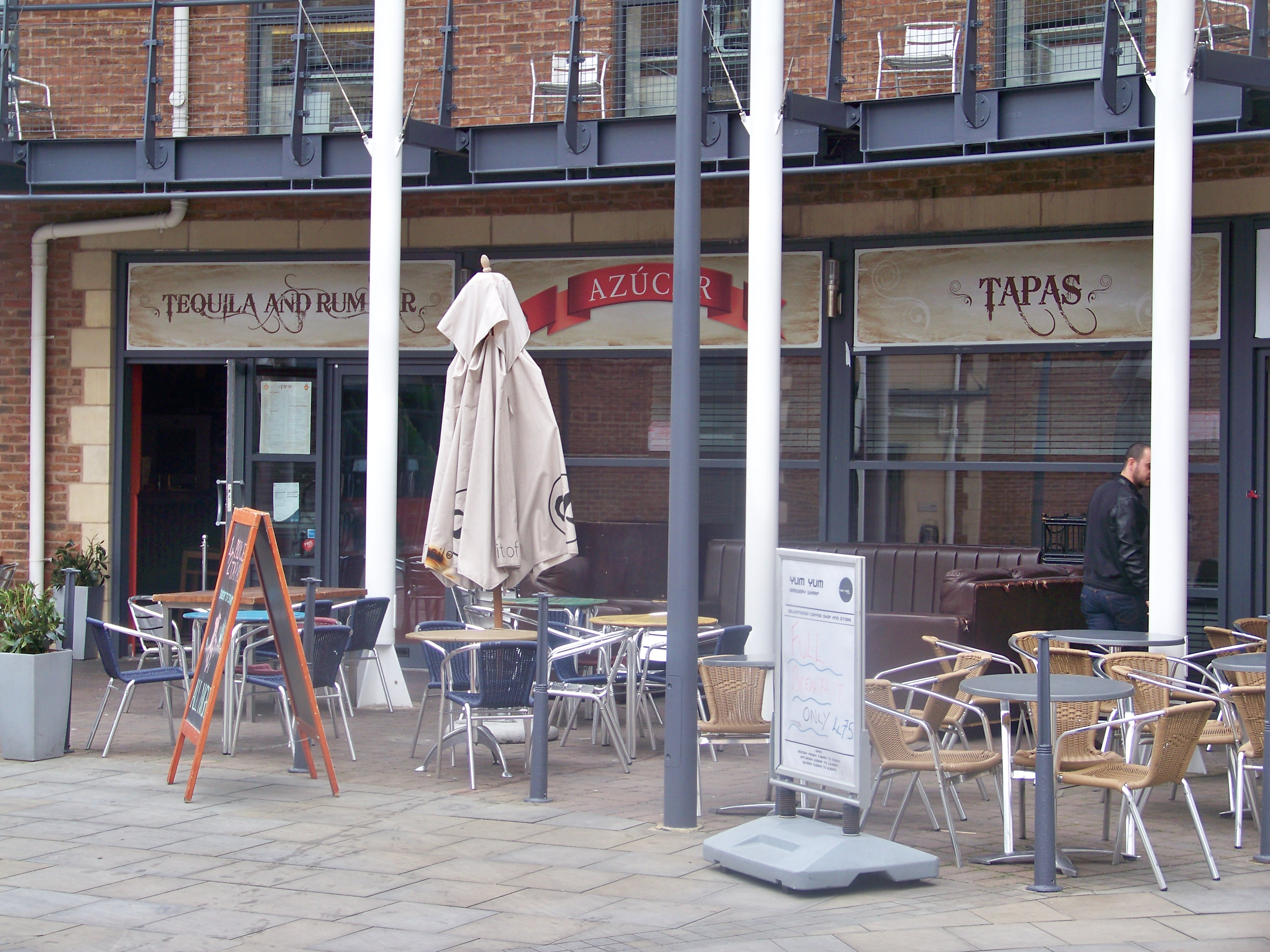 A Tapas restaurant at Brewery Wharf in Leeds, West Yorkshire. Taken on the afternoon of Monday the 10th of May 2010.